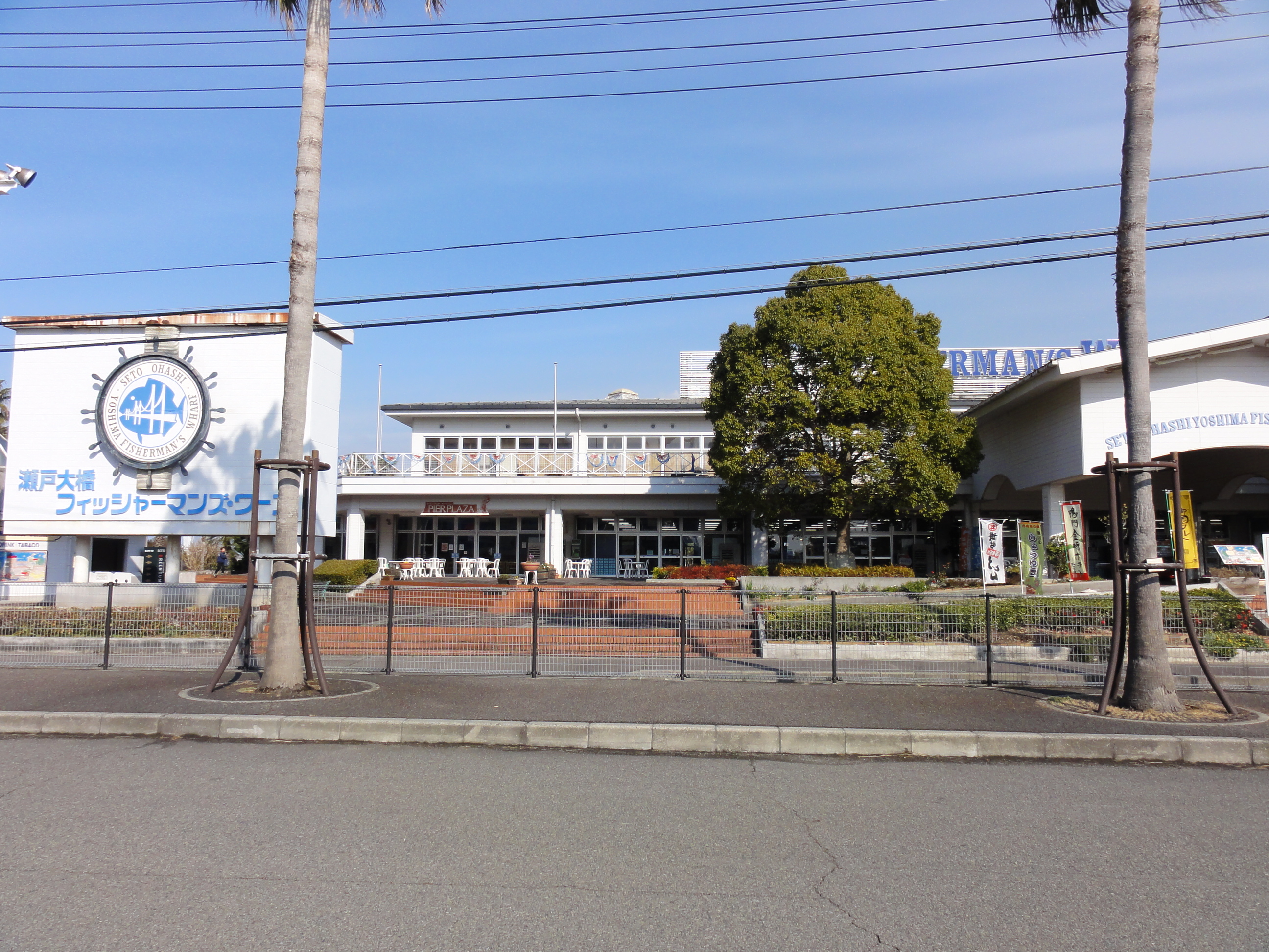 Fisherman’s wharf,Kagawa Pref., Japan